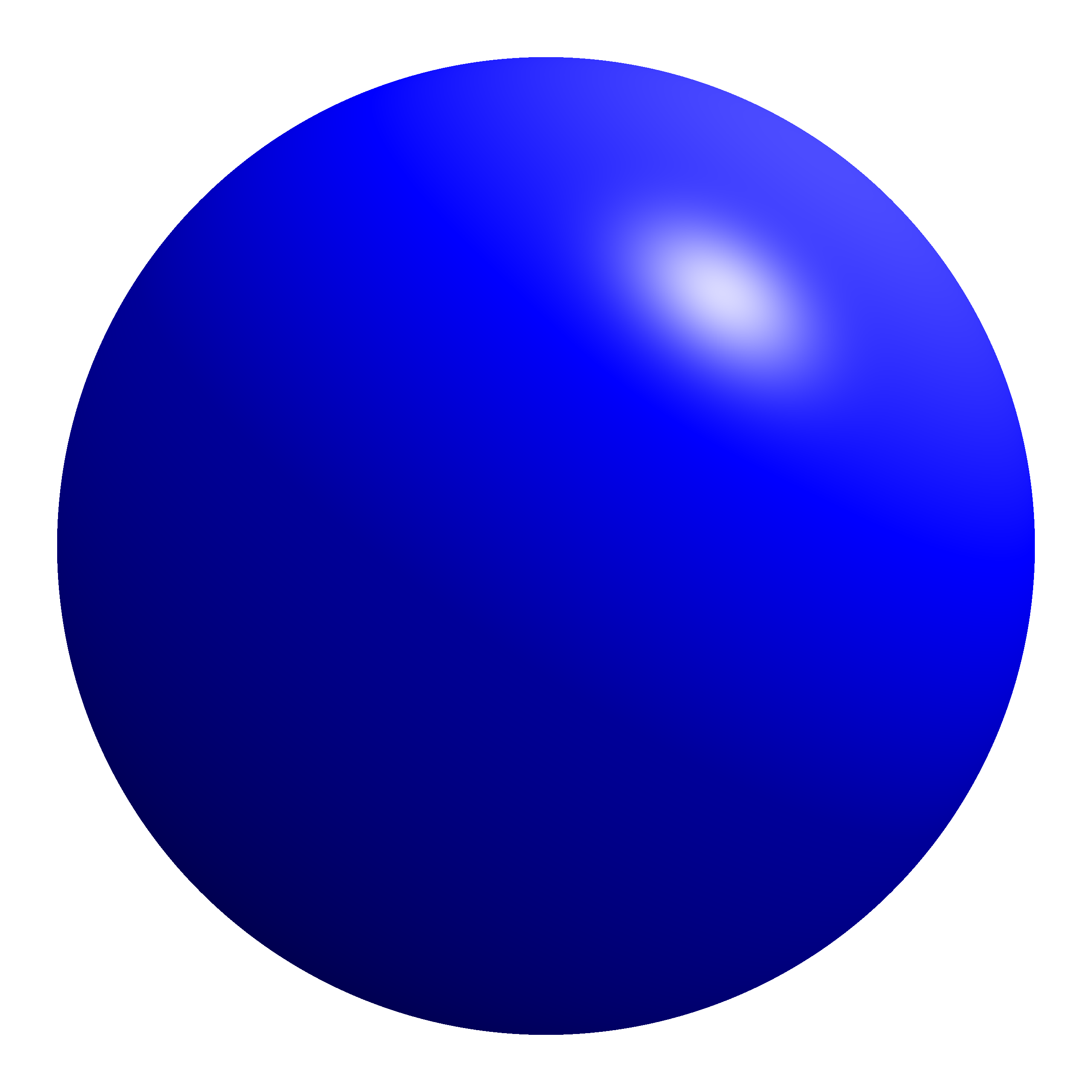 Calculated 1s0 orbital of an electron's eigenstate in the Coulomb-field of a hydrogen nucleus. An eigenstate is a state which keeps it's shape except for a complex phase when the Hamilton operator is applied, thus being invariant in time while obeying the Schrödinger equation. The wavefunction is: ψ 1 , 0 , 0 ( r , ϑ , φ ) = ( 2 a 0 ) 3 1 2 ⋅ e − r / a 0 ⋅ 1 4 π {\displaystyle \psi _{1,0,0}(r,\vartheta ,\varphi )={\sqrt \left({\frac {2}{a_{0 }\right)}^{3}{\frac {1}{2 \cdot e^{\textstyle -r/a_{0 \cdot {\frac {1}{\sqrt {4\,\pi The state is an eigenstate of H, L² and Lz, which constitute a complete set of commuting observables. The quantum numbers mean that the following quantities have a sharp certain value: n = 1: Energy: E = − 1 R y / n 2 = − 13.6 e V {\displaystyle E=-1\,\mathrm {Ry} /n^{2}=-13.6\,\mathrm {eV} } l = 0: Angular momentum: | L | = l ( l + 1 ) ℏ = 0 {\displaystyle |L|={\sqrt {l\,(l+1) \,\hbar =0} m = 0: Angular momentum in z-direction: L z = m ℏ = 0 {\displaystyle L_{z}=m\,\hbar =0} Since l=0, this is called a s-orbital. The depicted rigid body is where the probability density exceeds a certain value. The color shows the complex phase of the wavefunction, where blue means real positive, red means imaginary positive, yellow means real negative and green means imaginary negative. The image is raytraced using modified Phong lighting. The fine structure is neglected.